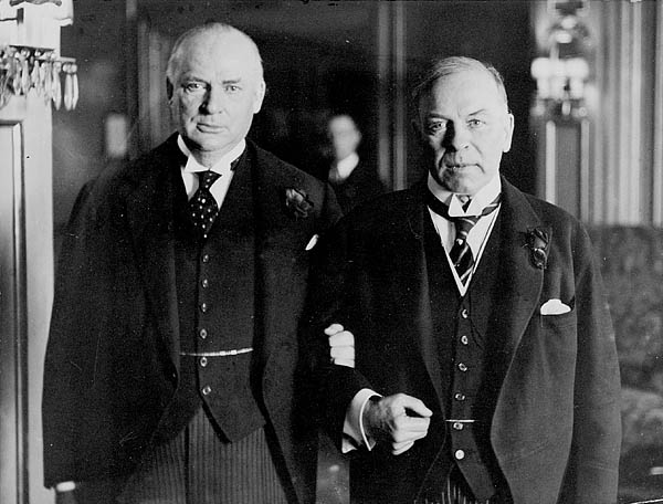 Rt. Hons. R.B. Bennett and W.L. Mackenzie King at a ceremony celebrating the centennial of the incorporation of the City of Toronto